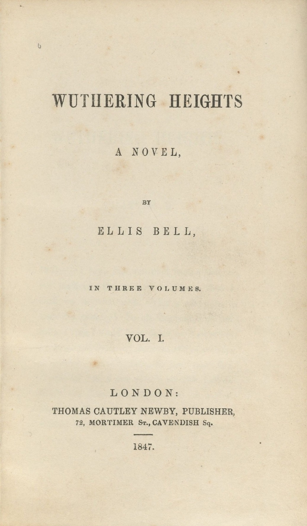 Title page for the first volume of the first edition of Wuthering Heights by Emily Brontë, published in 1847 under the pseudonym Ellis Bell. Thomas Cautley Newby, publisher. Lowell 1238.5 (A), Houghton Library, Harvard University